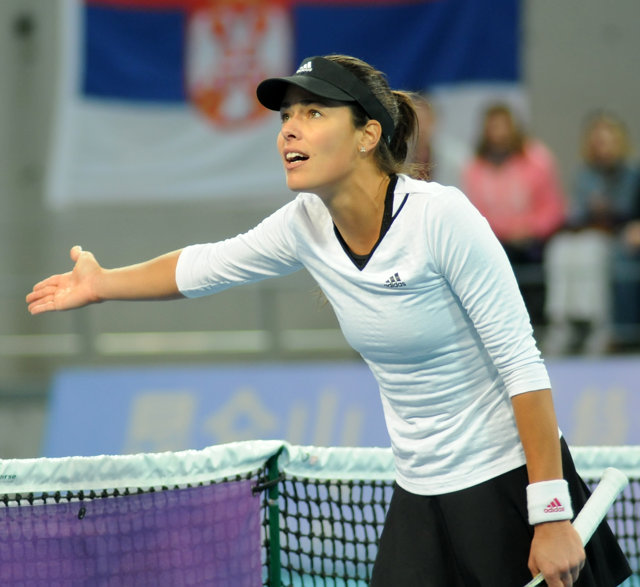 Ana Ivanović at the 2014 China Open